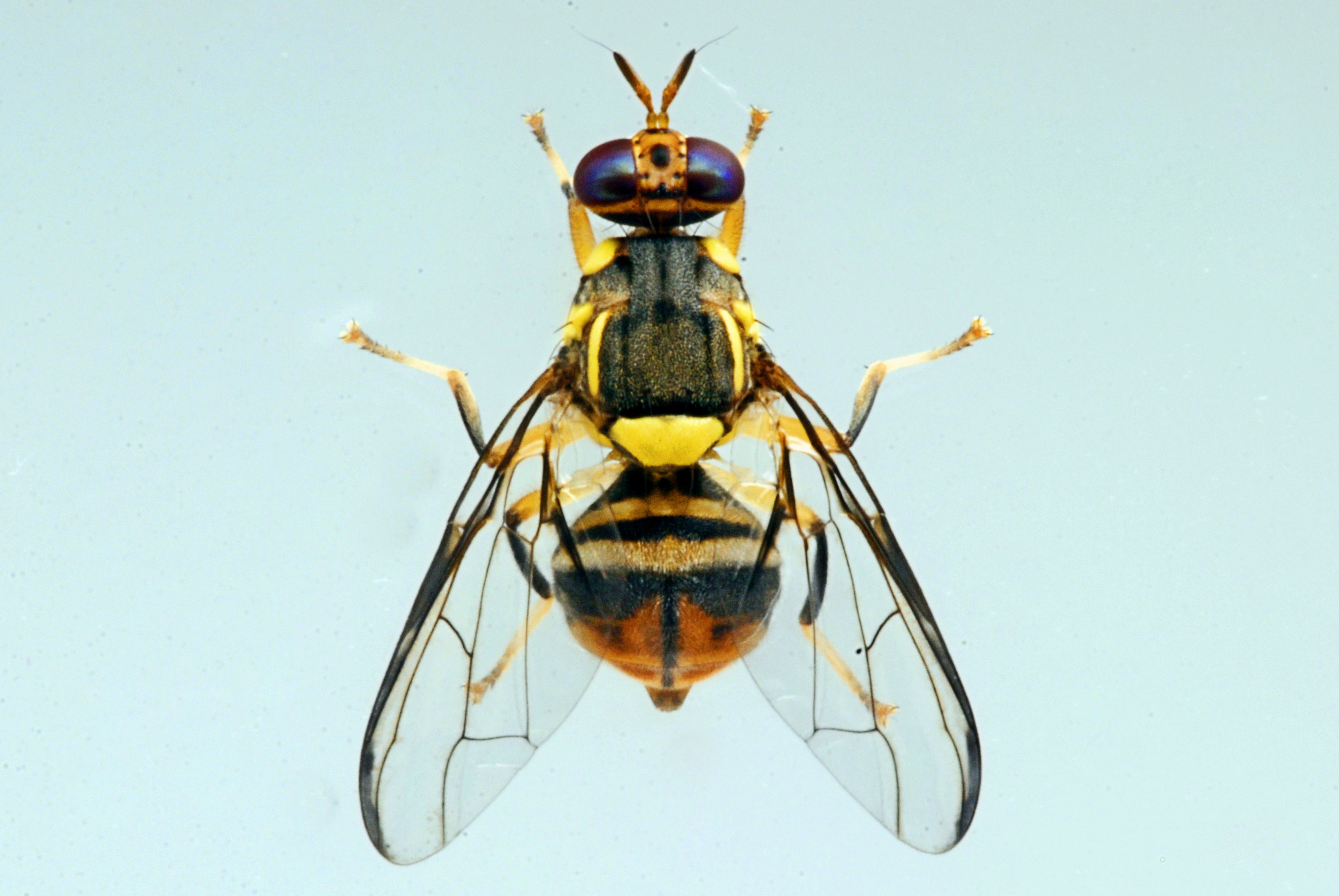 Bactrocera dorsalis (complex) Entomology Unit IAEA Seibersdorf, Austria Bactocera dorsalis: Origin: Asia, Suriname, Brazil, Hawaii Common name: Oriental fruit fly Host: Most fruits and fruiting vegetables, wild hosts. Damage: Highly significant economic damage. Copyright: IAEA Imagebank Photo Credit: Viwat Wornoayporn / IAEA